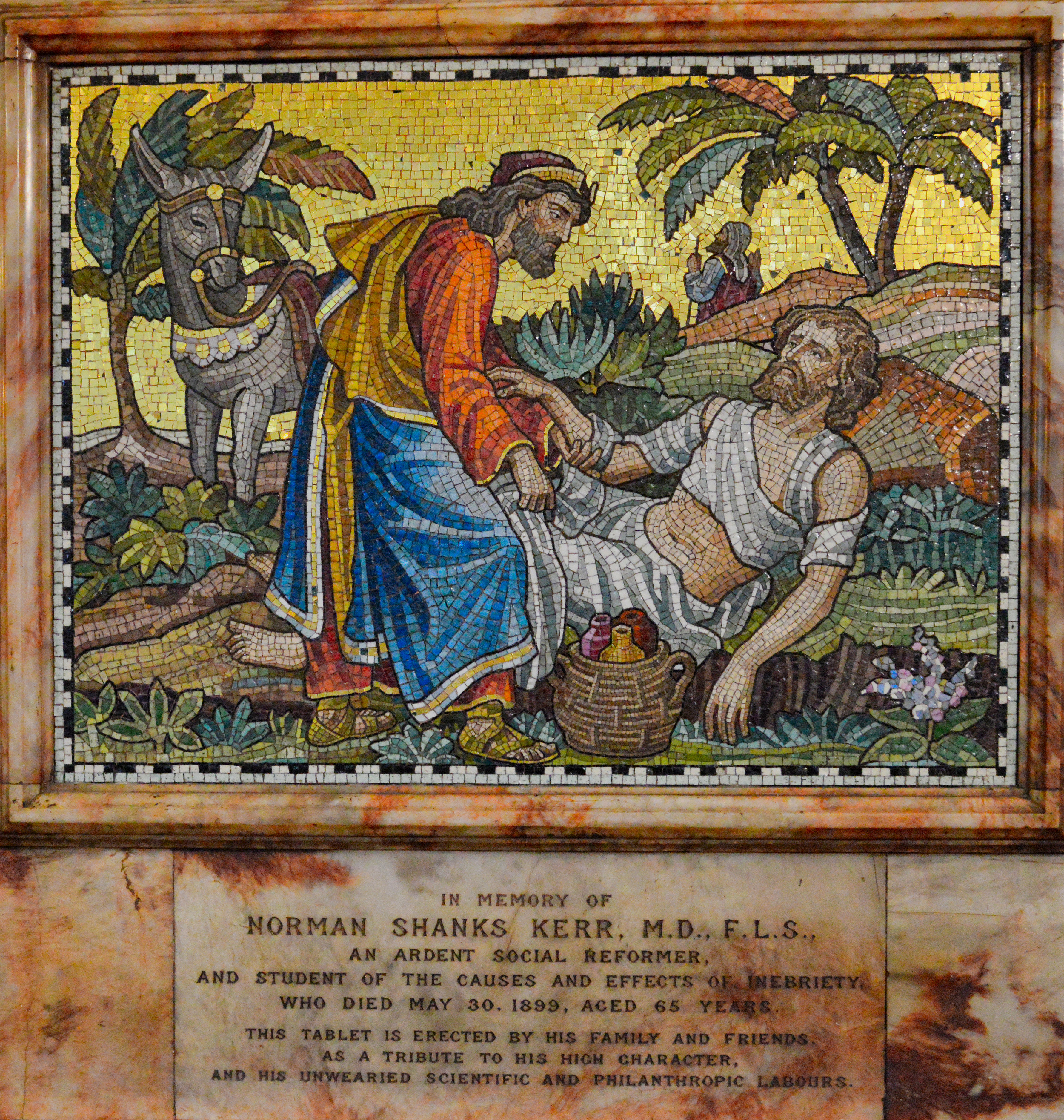 Memorial mosaic of the Good Samaritan to Norman Shanks Kerr at St Mark's Church, London NW8. Installed 1901. Mosaic by Salviati & Co. of Venice. The alabaster surround by J Underwood & Sons, Monumental, Ecclesiastical, and Architectural Works, Boundary Road, St. John's Wood, London